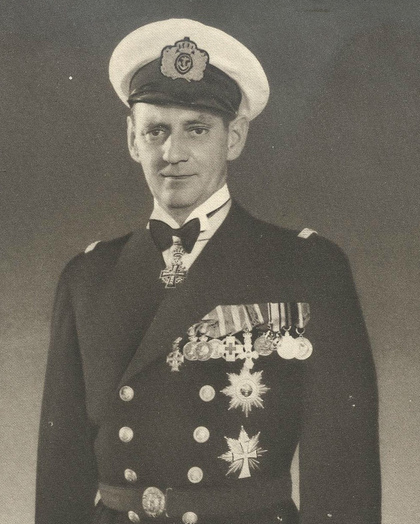 King Frederick IX of Denmark shortly after his ascension